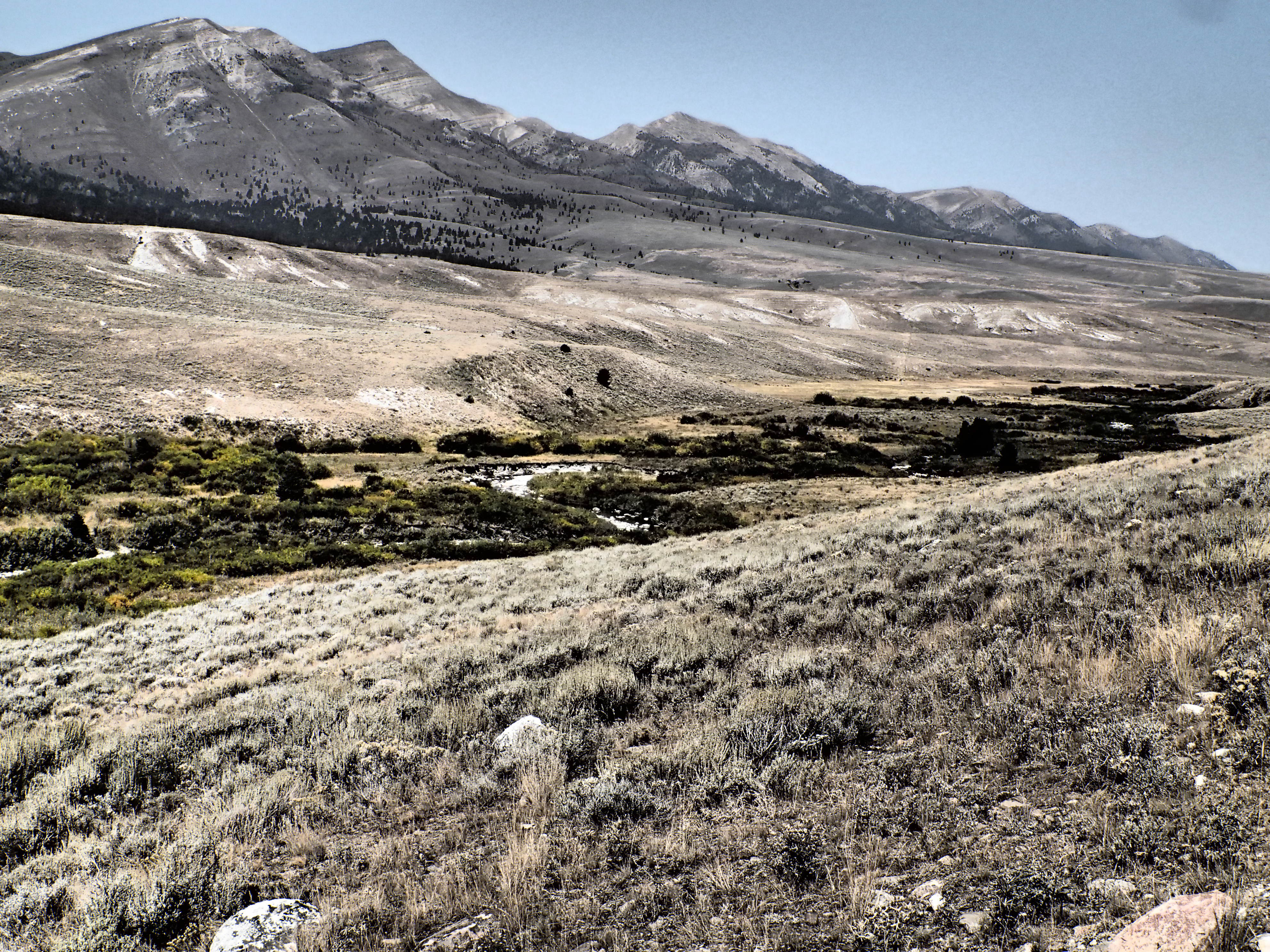 Upper Ruby River, Beaverhead County, Montana Summer 2013